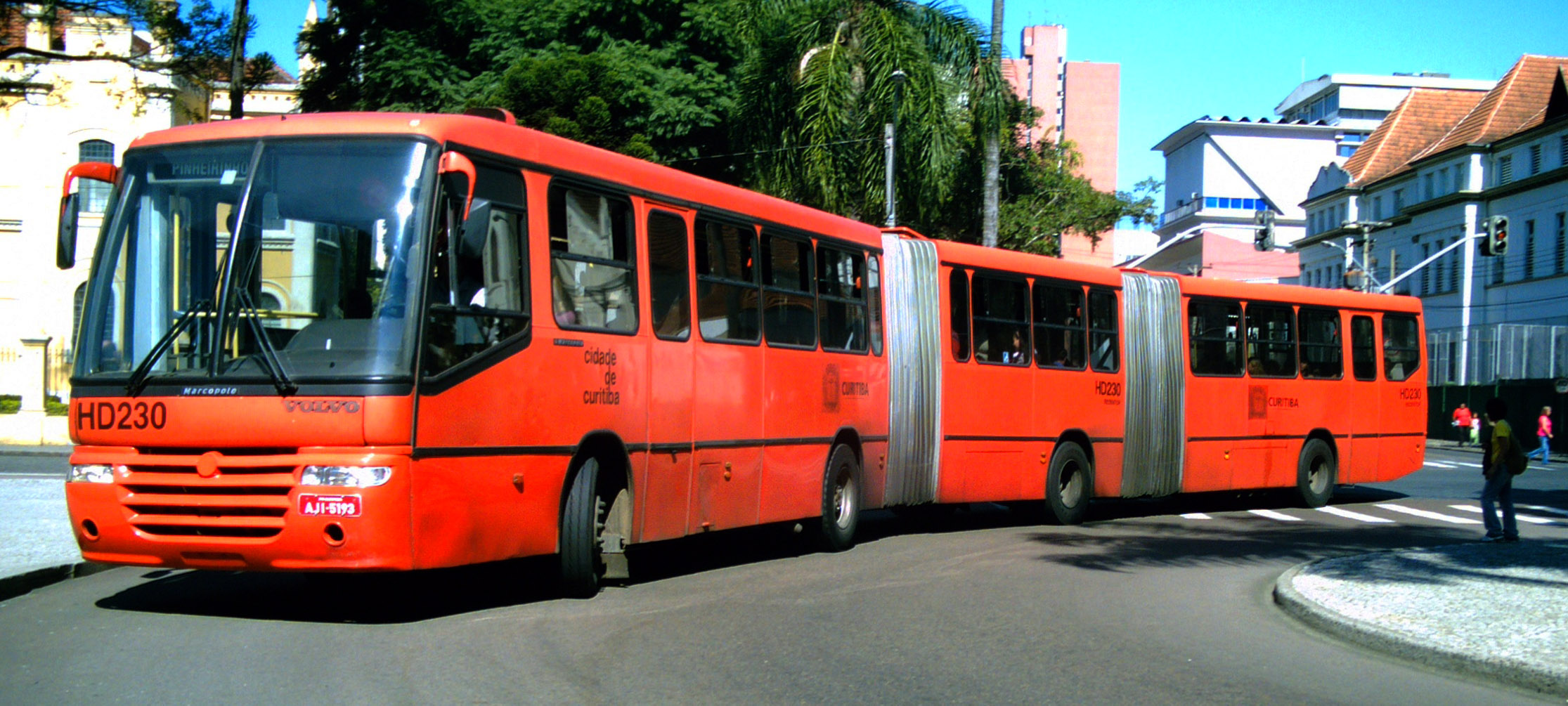 Marcopolo Torino Biarticulado bus (#HD230) with Volvo B10M Biarticulado chassis in Curitiba, Brazil.